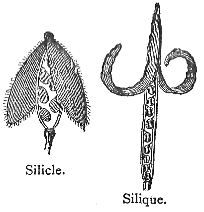 Illustration from 1908 Chambers's Twentieth Century. Silicle, n. (bot.) a seed-vessel shorter and containing fewer seeds than a silique: Silique, the two-valved elongated seed-vessel of the Cruciferæ.